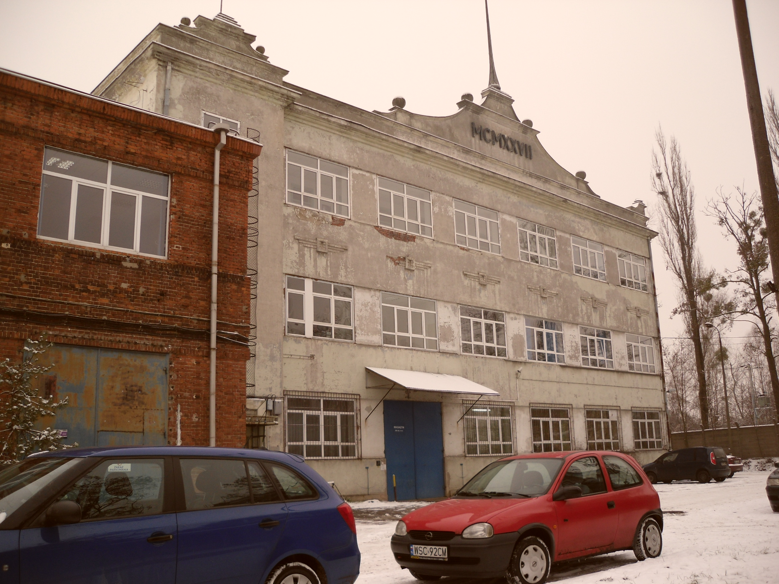 Chodaków - administration building of Chemitex